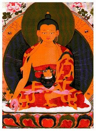 Painting of Prabhutaratna (Abundant Treasures) Buddha.